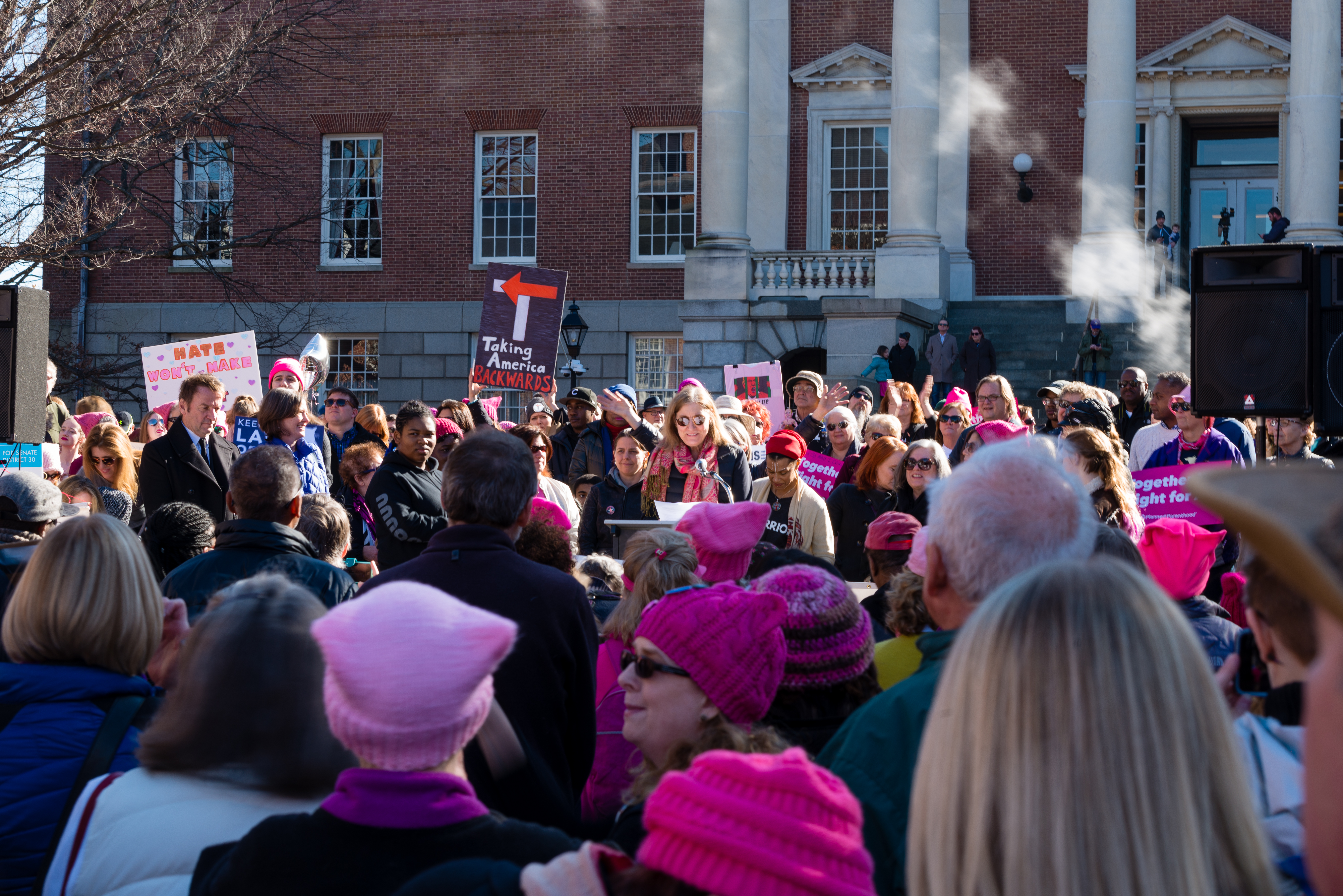 The 2018 Women's March in Annapolis MD was one of many marches around the world. It took place on Bladen St near the Maryland State House